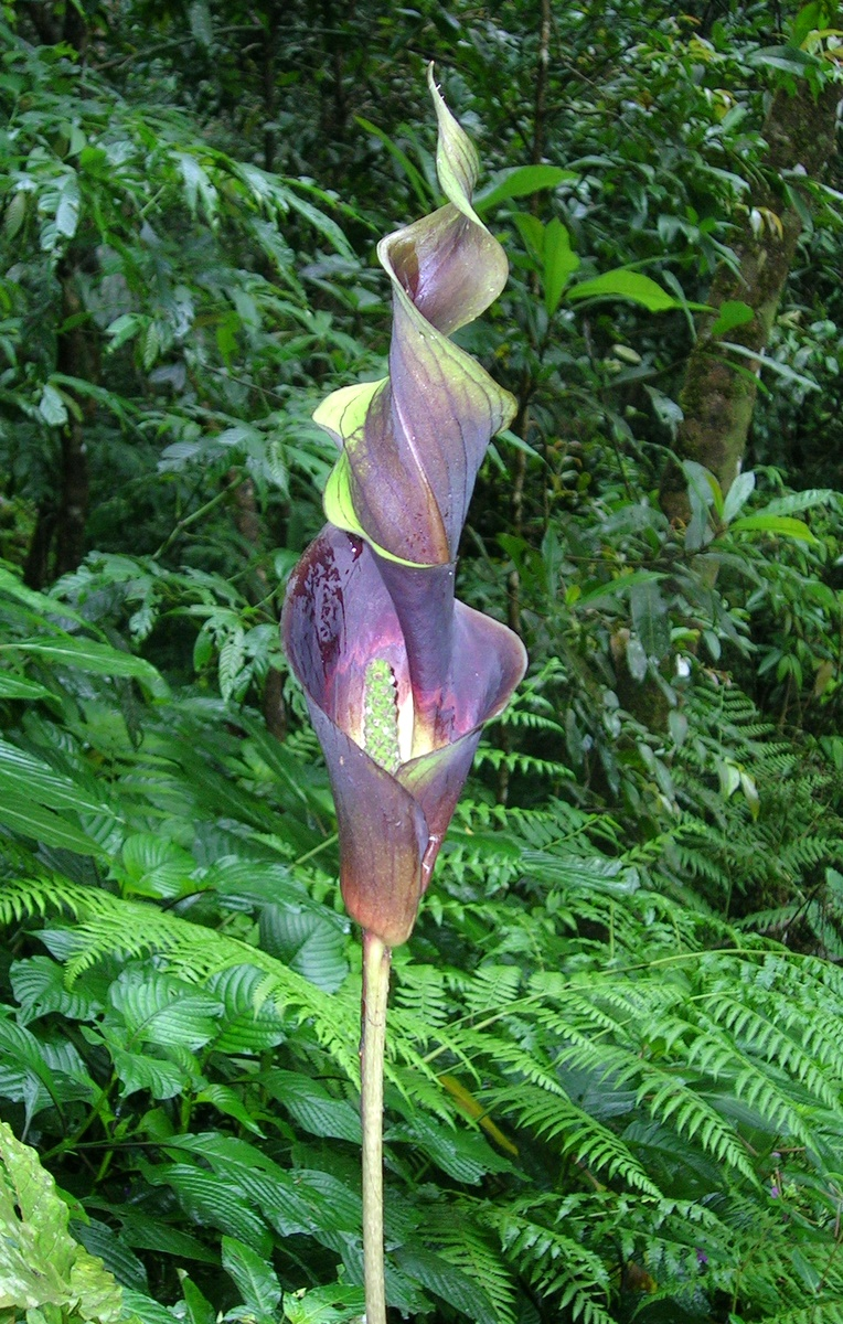 Anaphyllum wightii, Smelly arum from Wayanad, Kerala, India